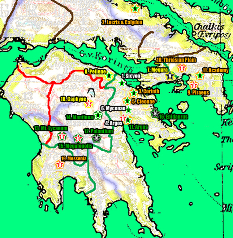 Orange: Against Macedonia Yellow: Against Aetolia Green: Against Sparta Green Star: Victory Red Star: Defeat/Misfortune Black Star: Early Withdrawal/Passing Point